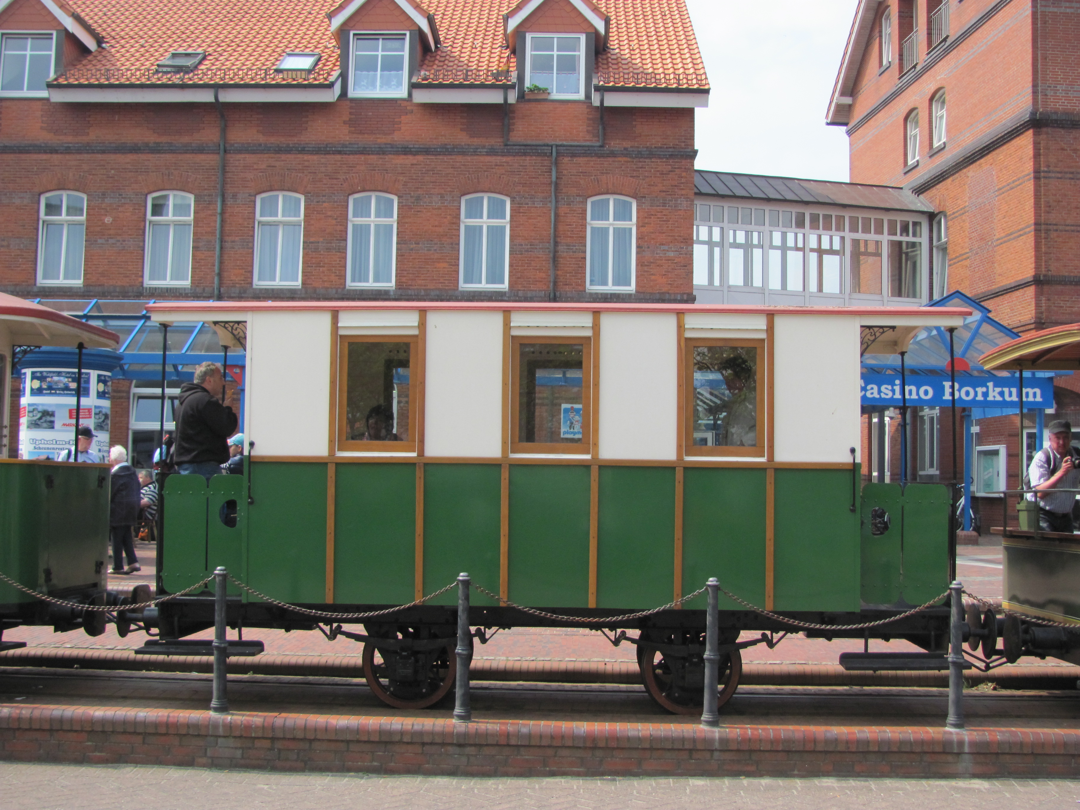 Passenger coach of former military railway on Borkum